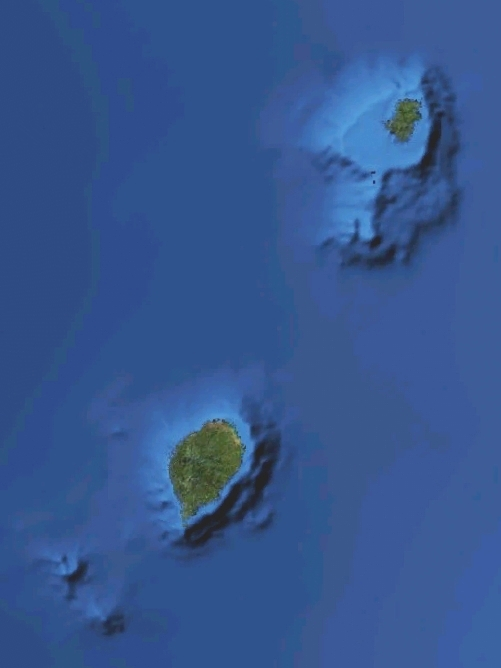 Satellite image of São Tomé and Príncipe. Blue Marble+Bathy image set.